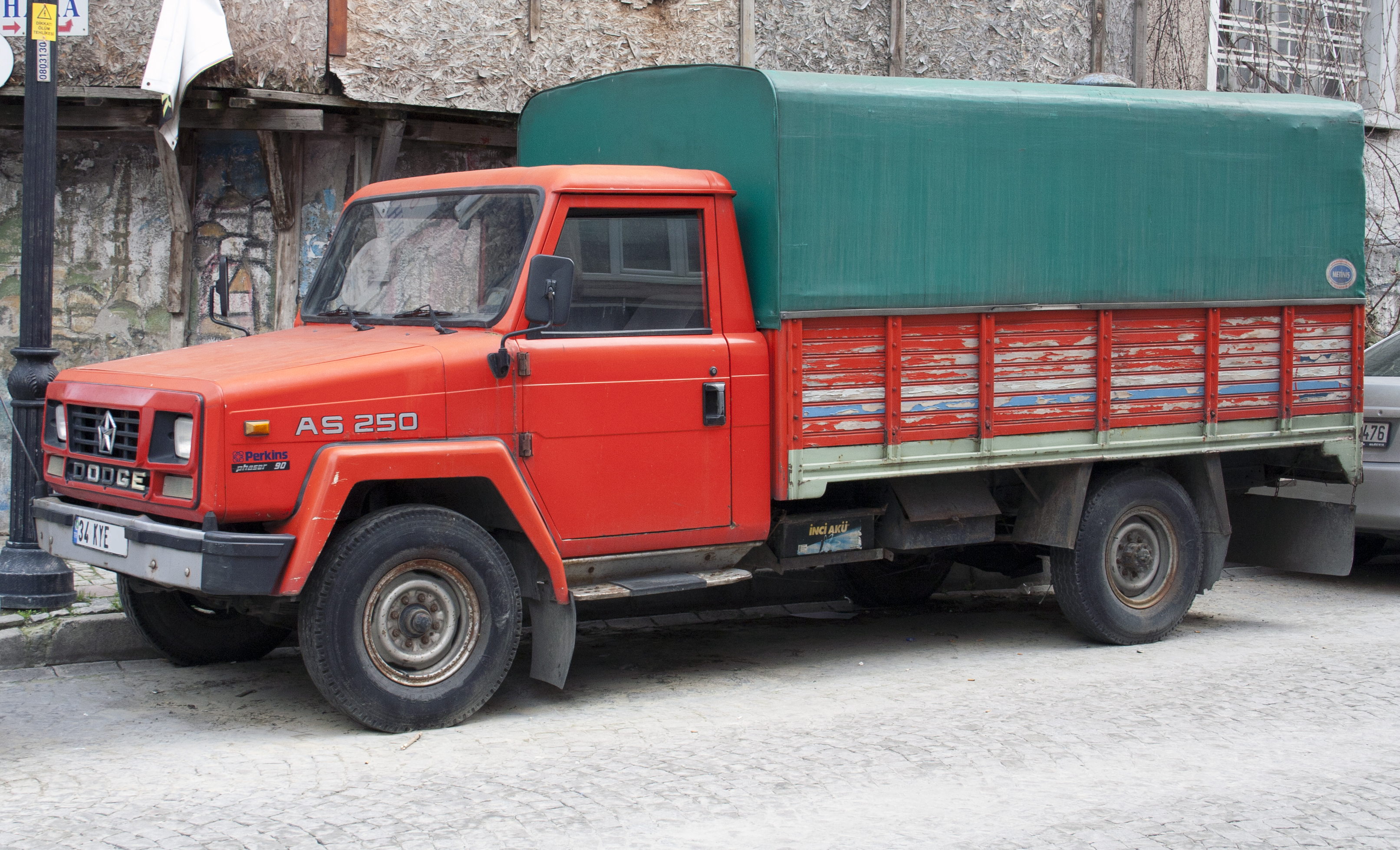 Askam-built Dodge AS250 truck in Istanbul. They're almost all this same shade of red. This one has an 87hp Perkins "Phaser 90" diesel (four cylinders, 3990cc) engine and a 2.5 ton payload. They were built from the first half of the 1990s until 2002.